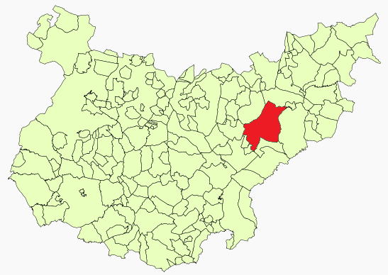 Castuera